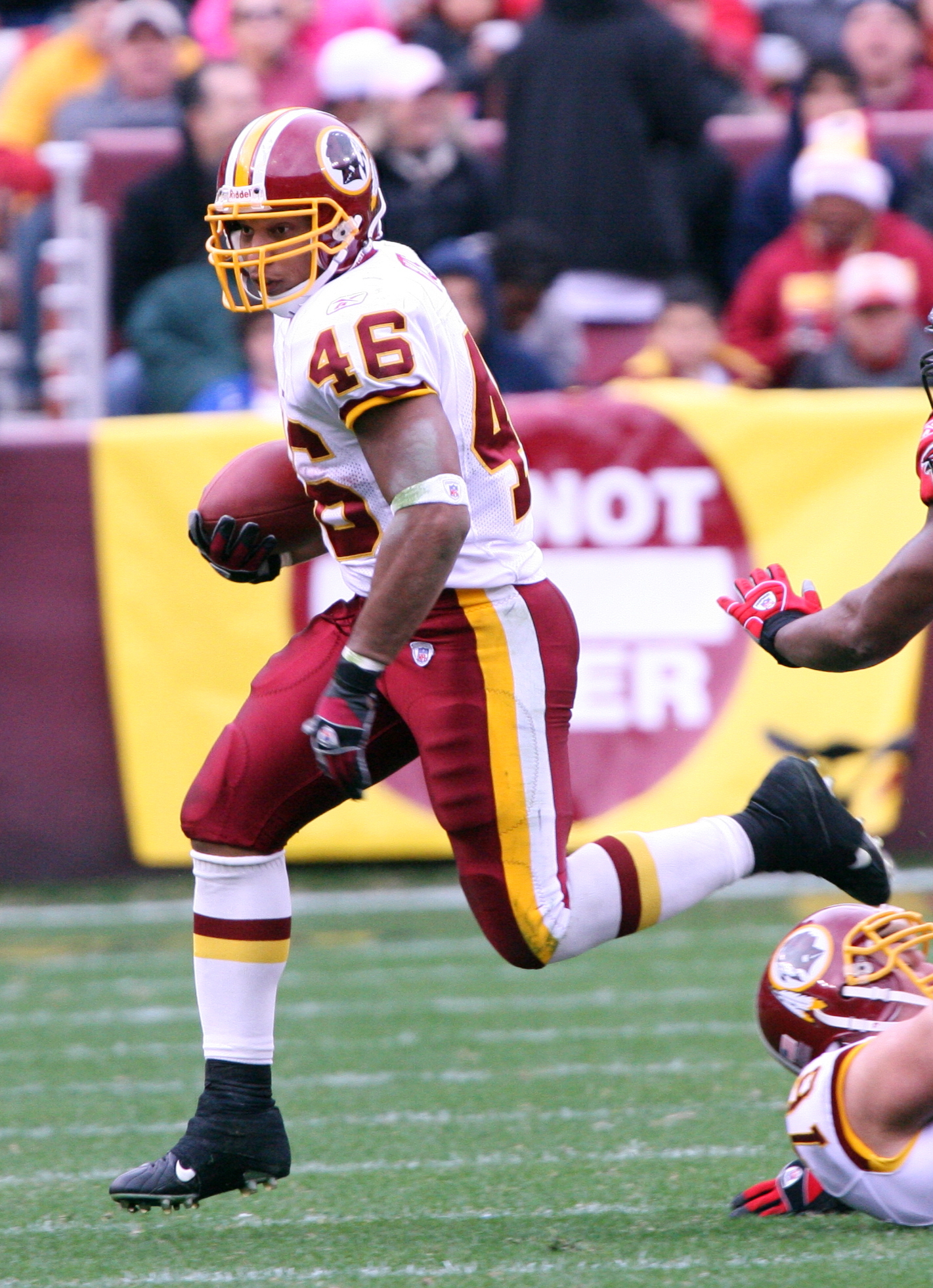 Ladell Betts in a 2006 game against the Falcons.